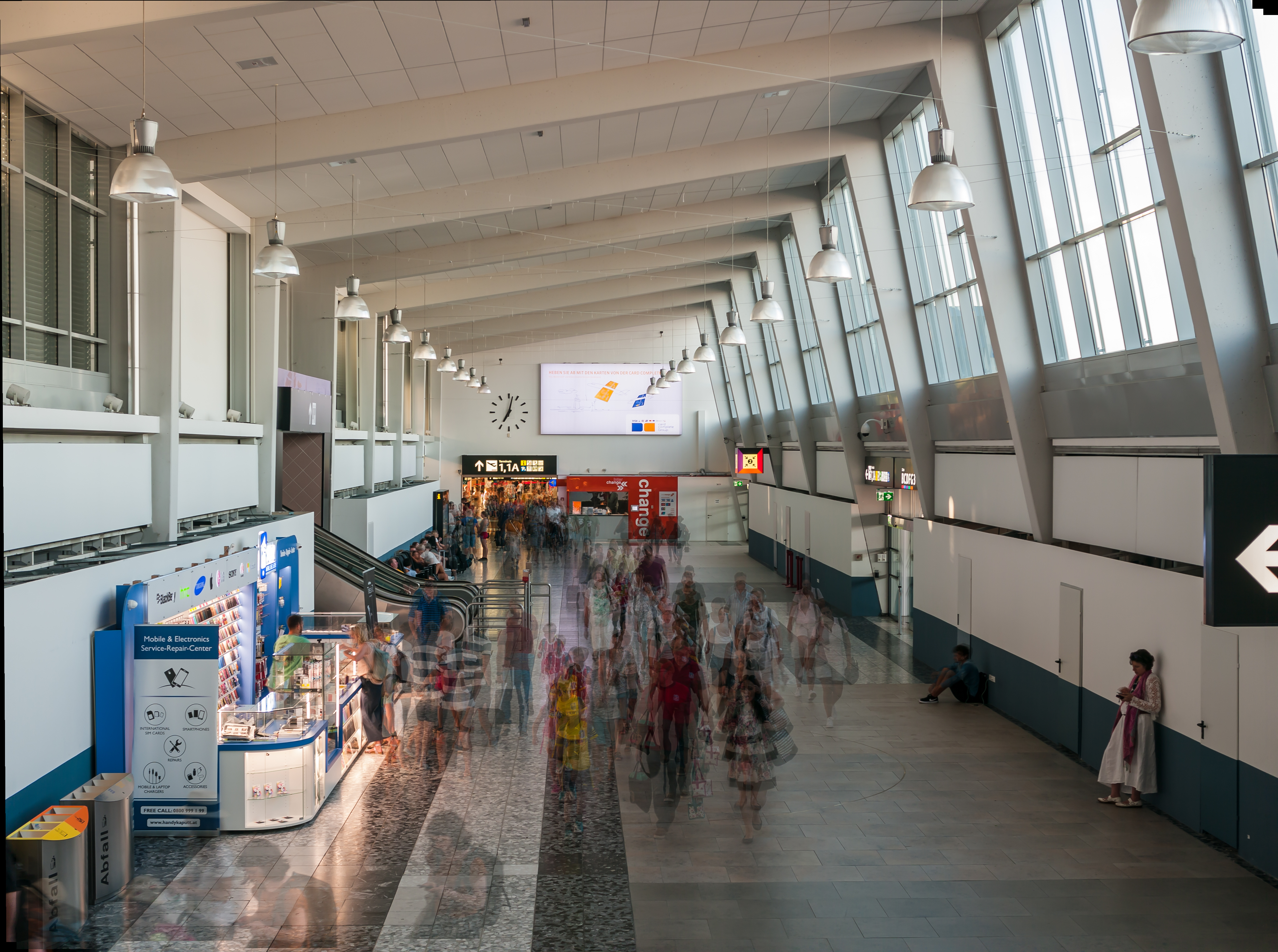 Vienna International Airport